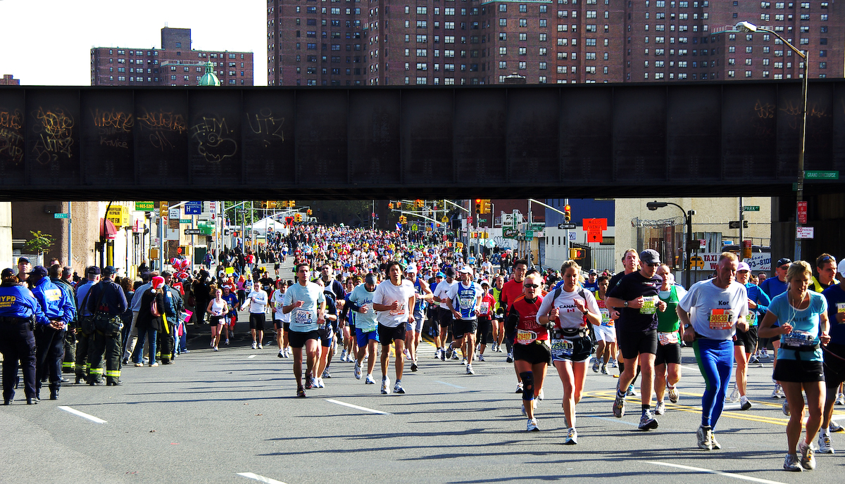 New-York Marathon 2008